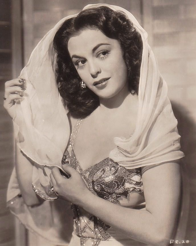 cuban actress Estelita Rodriguez - publicity still (original image damaged, cropped and modified : see source)